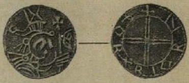 Coin of Olaf III of Norway, cited from Myntherrer, Olav Kyrre. University of Oslo.